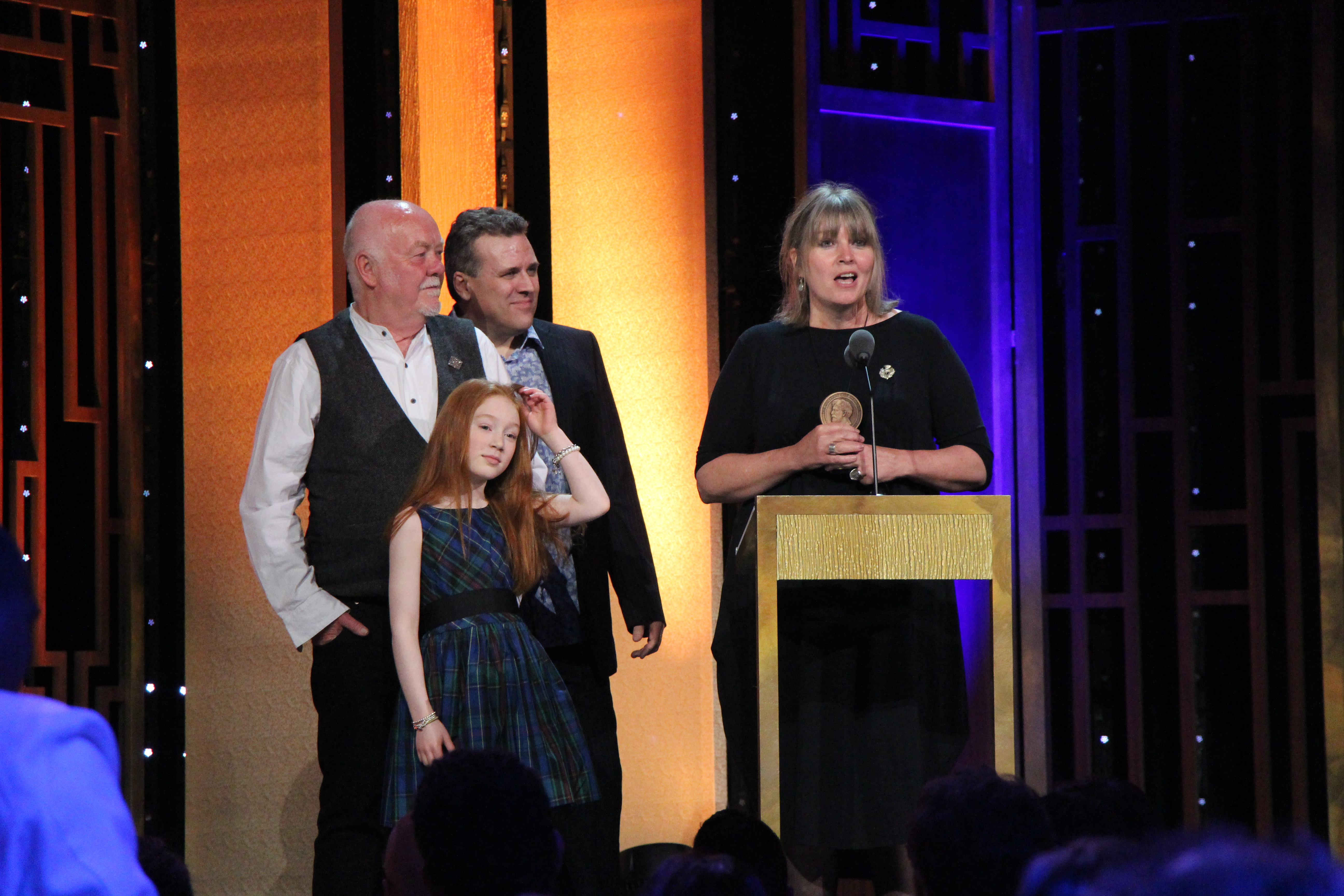 This photo includes the cast and crew of "Katie Morag," including actor Cherry Campbell, Director Don Coutts, Writer Sergio Casci and Executive Producer Lindy Cameron. (Photo/Sarah E. Freeman/Grady College, in New York City, Georgia, on Saturday, May 21, 2016)